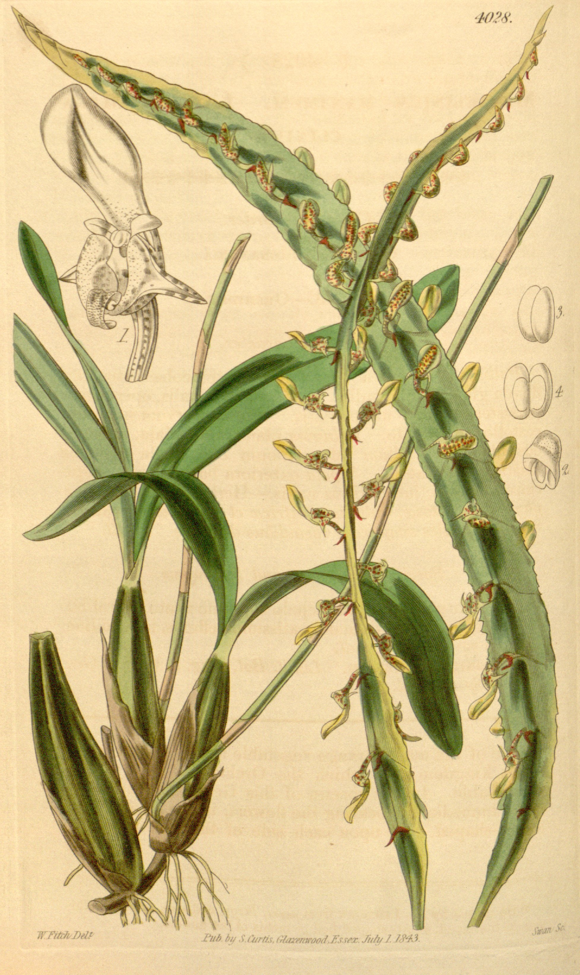 Illustration of Bulbophyllum maximum (as syn. Megaclinium maximum)